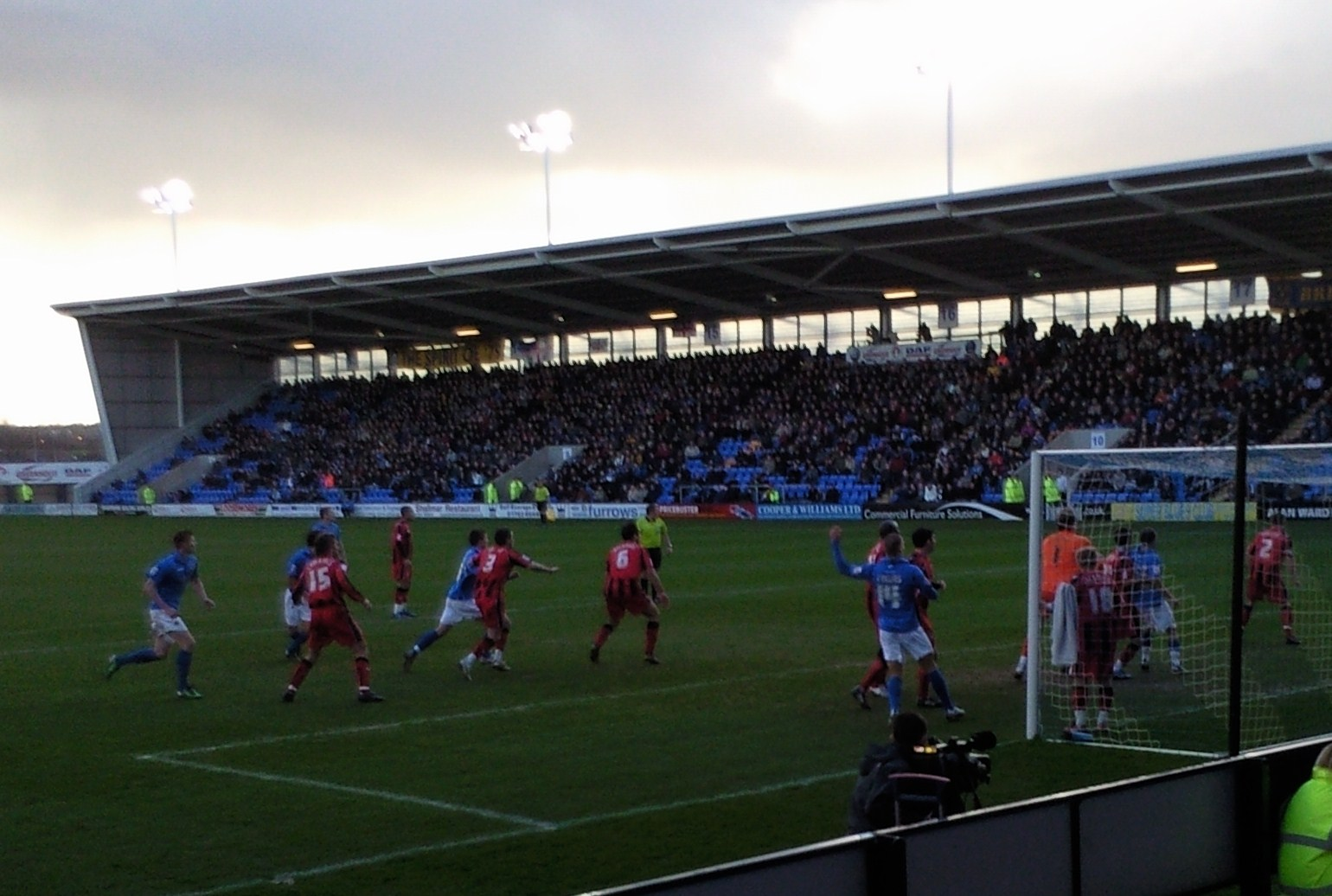 Shrewsbury Town F.C. vs Gillingham F.C. in February 2011. I took the picture myself.